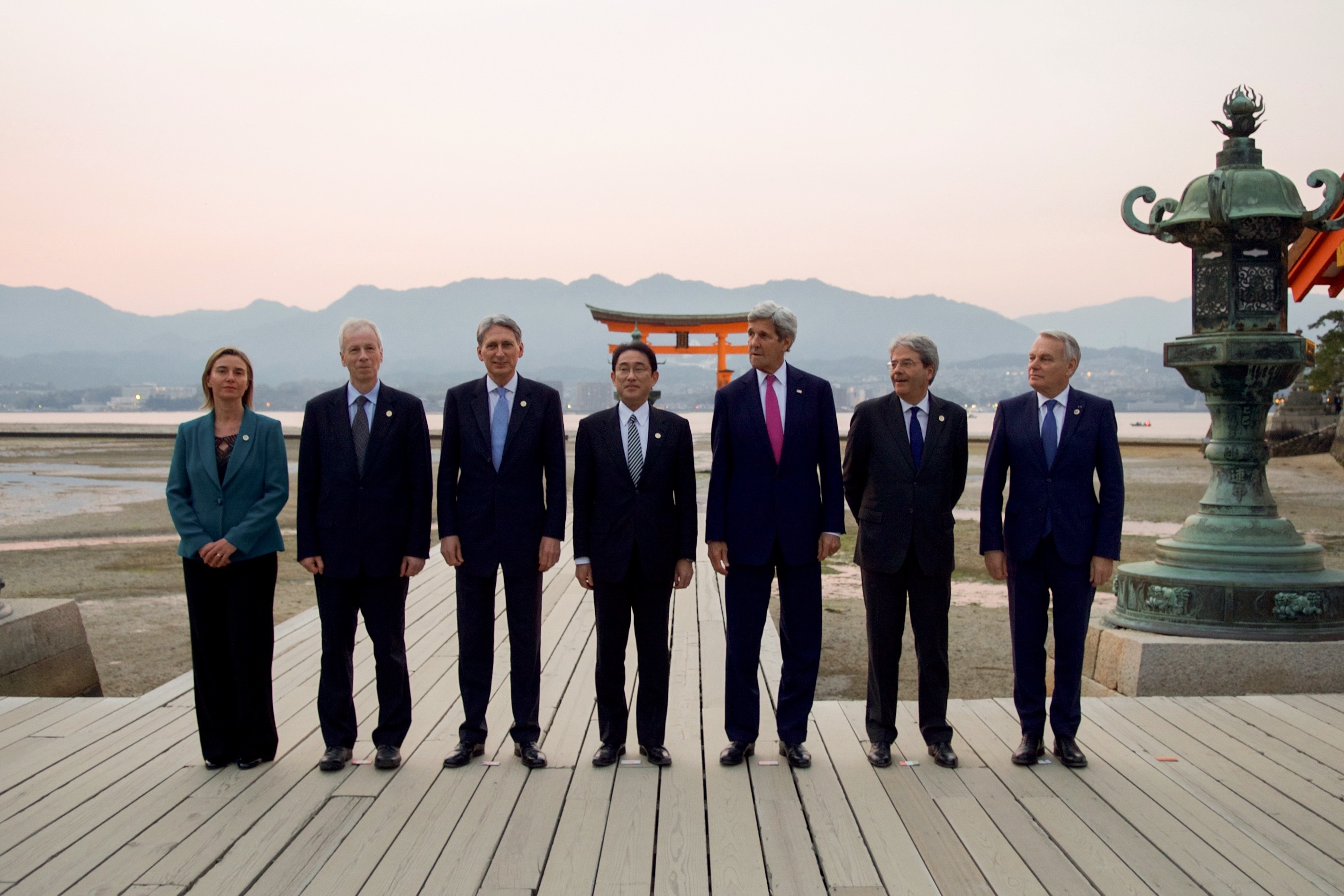 U.S. Secretary of State John Kerry stands with his counterparts from from Canada, Italy, the European Union, France, Japan, and the United Kingdom in front of the Itsukishima Shrine on Miyajima Island off Hiroshima, Japan, on April 10, 2016, following a tour and cultural performance preceding a working dinner after the first round of discussions in the G7 Ministerial Meetings. [State Department Photo/Public Domain]